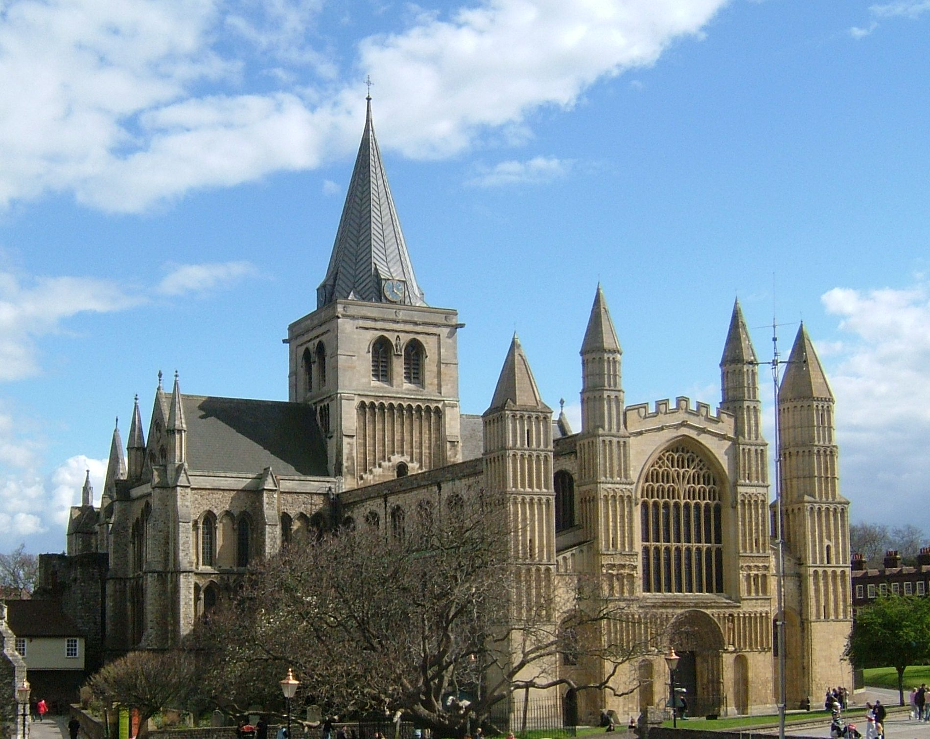 Rochester Cathedral 2006